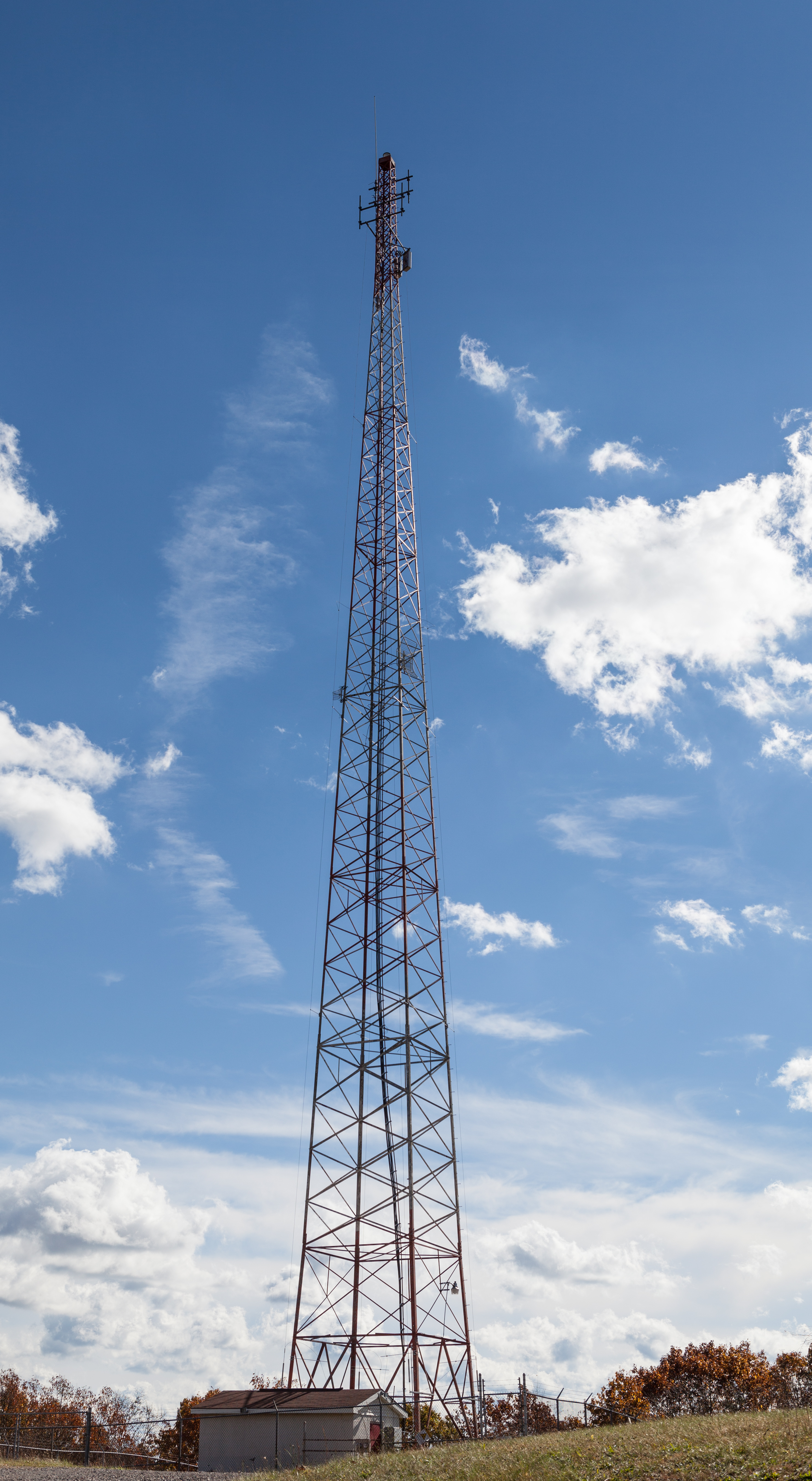 WTYM (AM) and WKHU-CD (TV) tower at 104 Gellner Lane, Kittanning, PA, seen from the north. WKHU simulcasts WEPA-CD. The tower supports a folded unipole for AM, and a two-panel one-bay directional TV antenna pointing ssw.